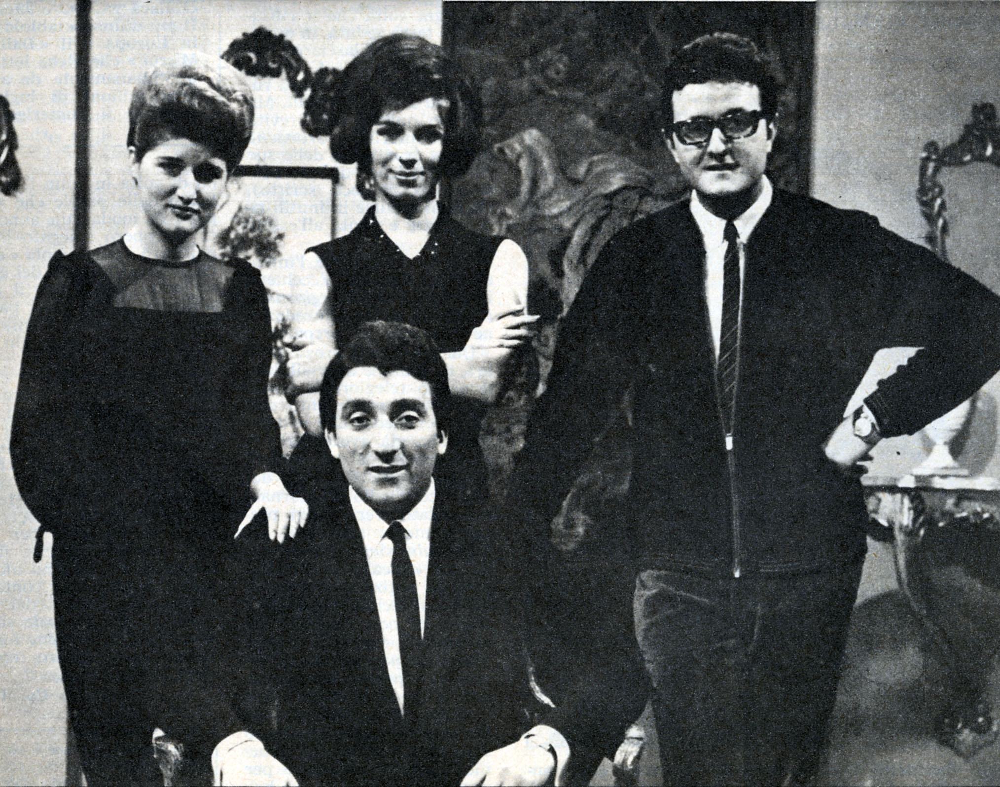 photo from the magazine Radiocorriere (1965)